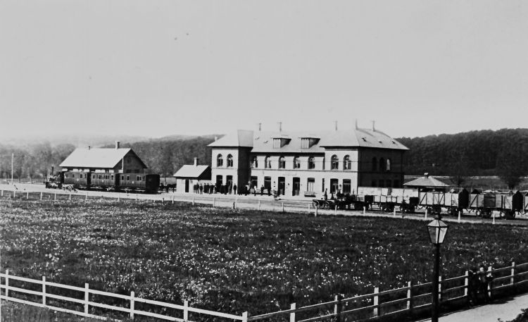 Odder Station shortly after completion